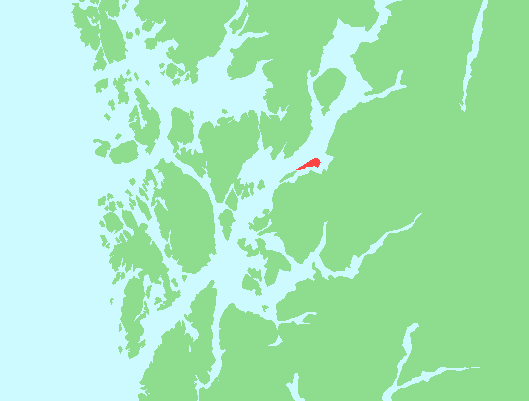 Locator map of Snilstveitøy, Hordaland, Norway